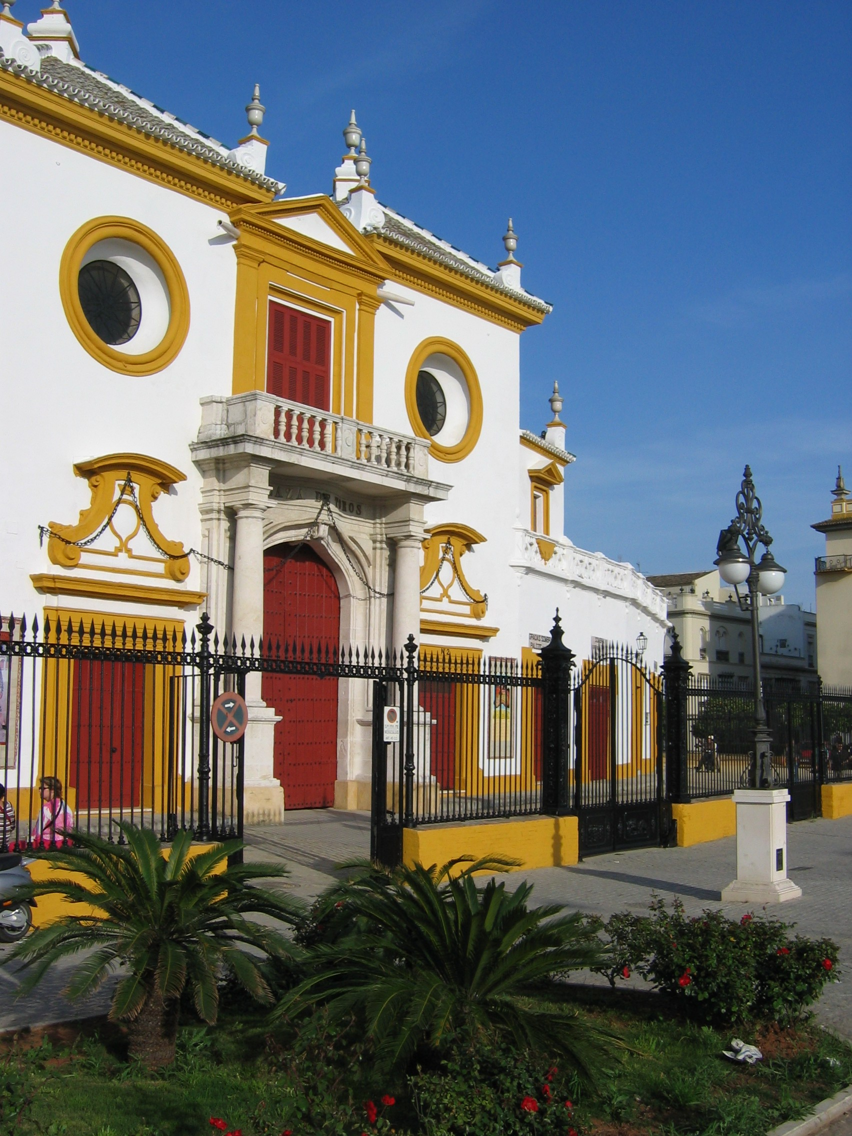 Gatehouse of Maestranza de Sevilla